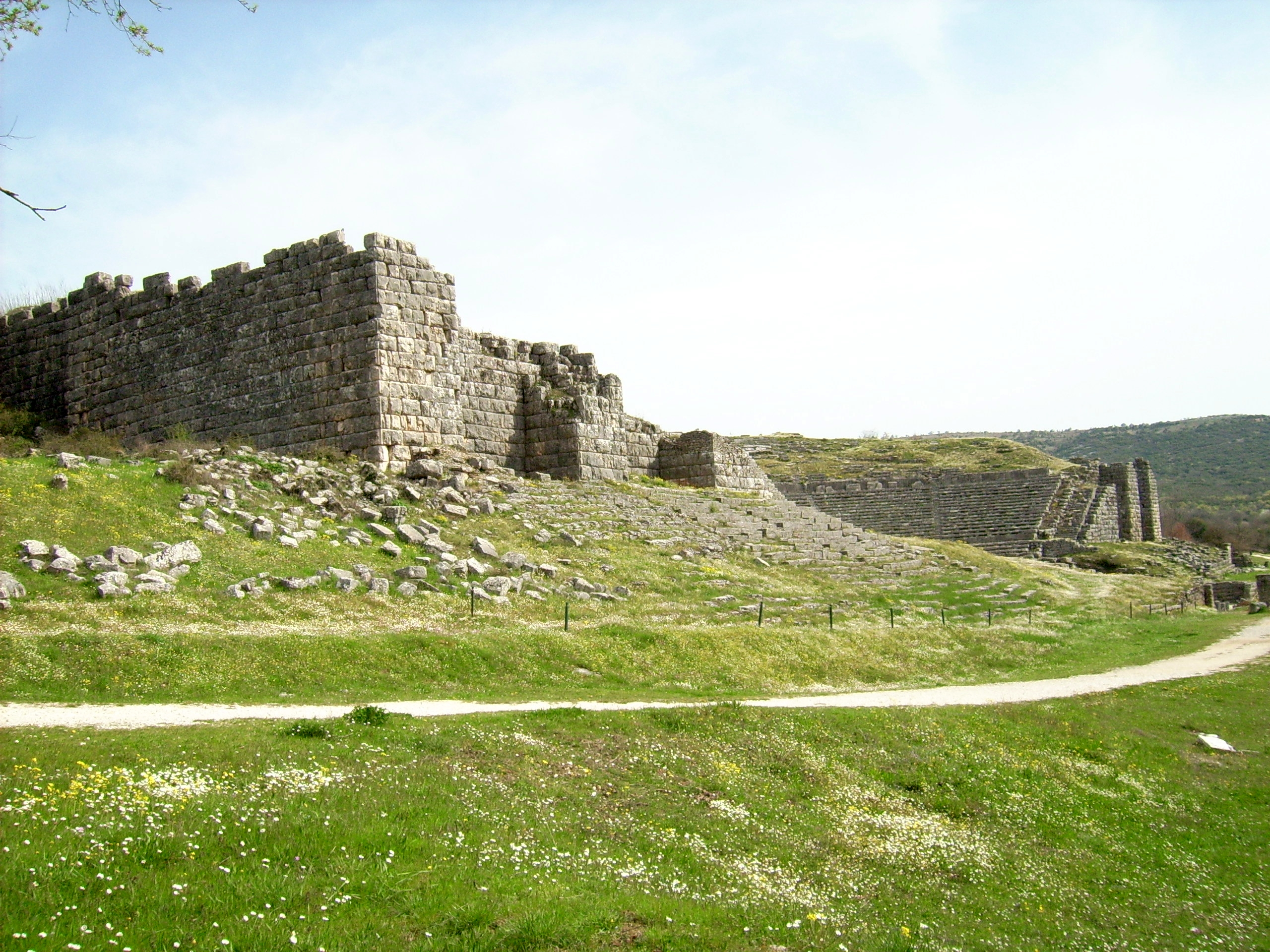 Oracle of Zeus at Dodona - exact discription follows nearby